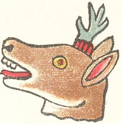 The Aztec day sign mazatl (deer).